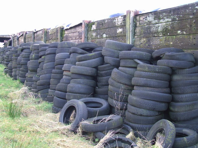 Tyred sleepers Old tyres and railway sleepers in use at Kelly Mains farm.